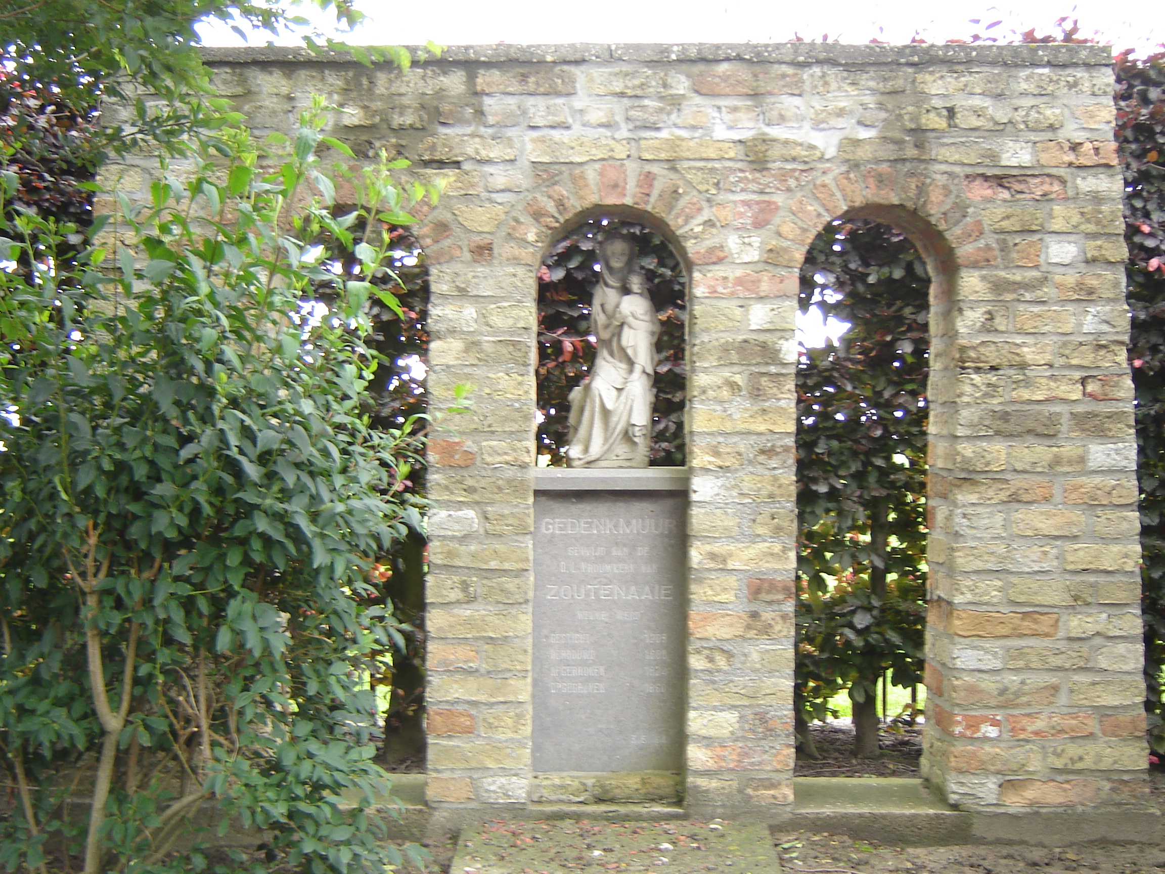 Memorial wall in Zoutenaaie, in memory of the church of Our Lady, taken down in 1824. Zoutenaaie, West Flanders, Belgium